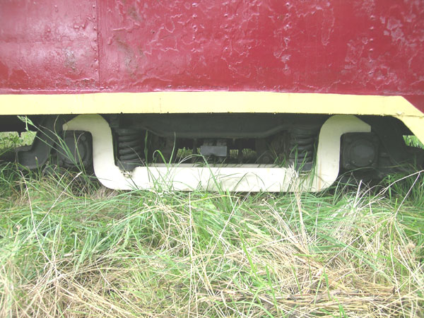 The bogie of LM-49 tramcar